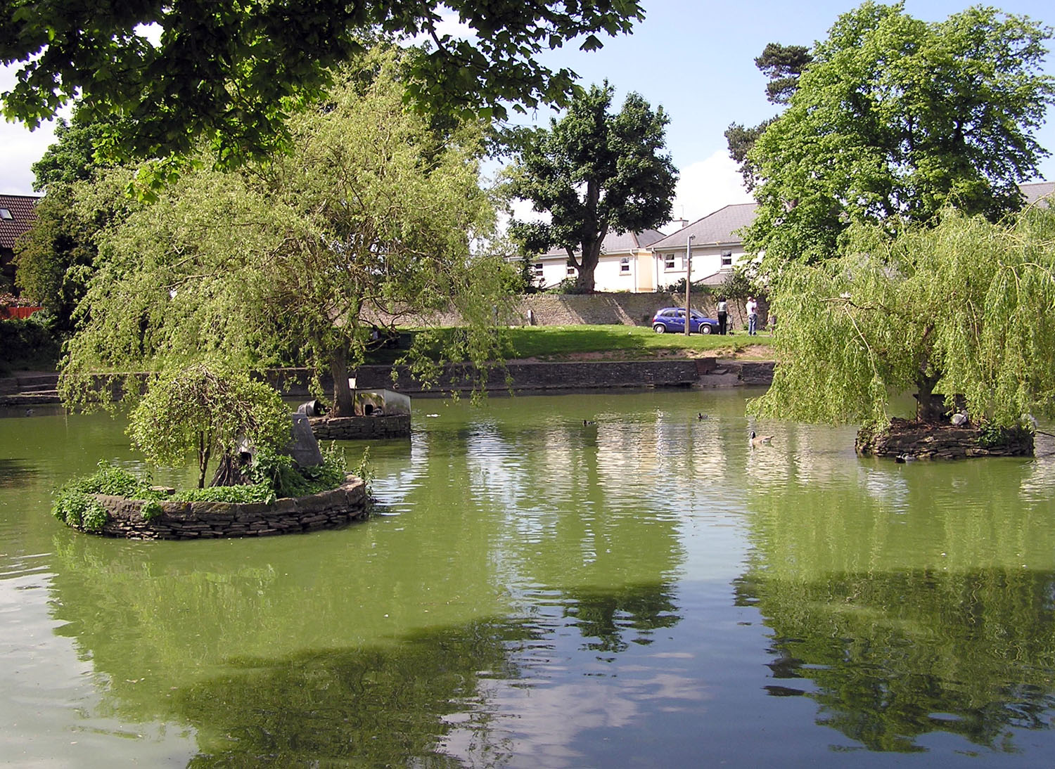 The village duck pond in Winterbourne, near Bristol, England. Taken by Adrian Pingstone in May 2005 and released to the public domain.